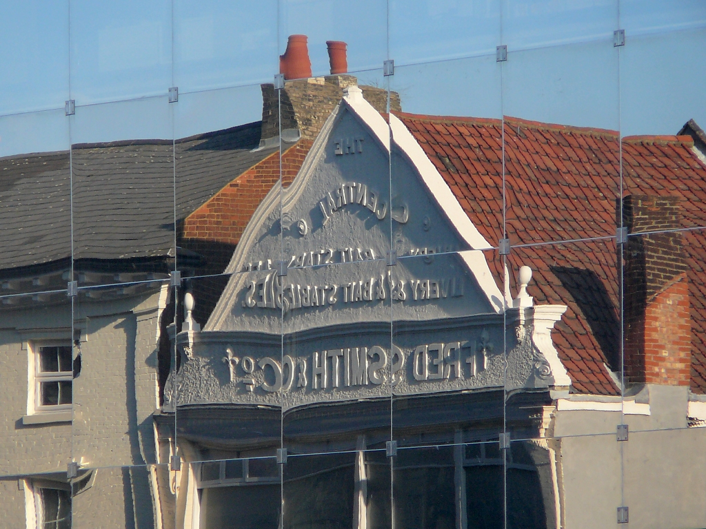 Former central livery and bait stables, reflected in the glass panels of the Willis Building. The image was taken with a Panasonic Lumix DMC-TZ1.